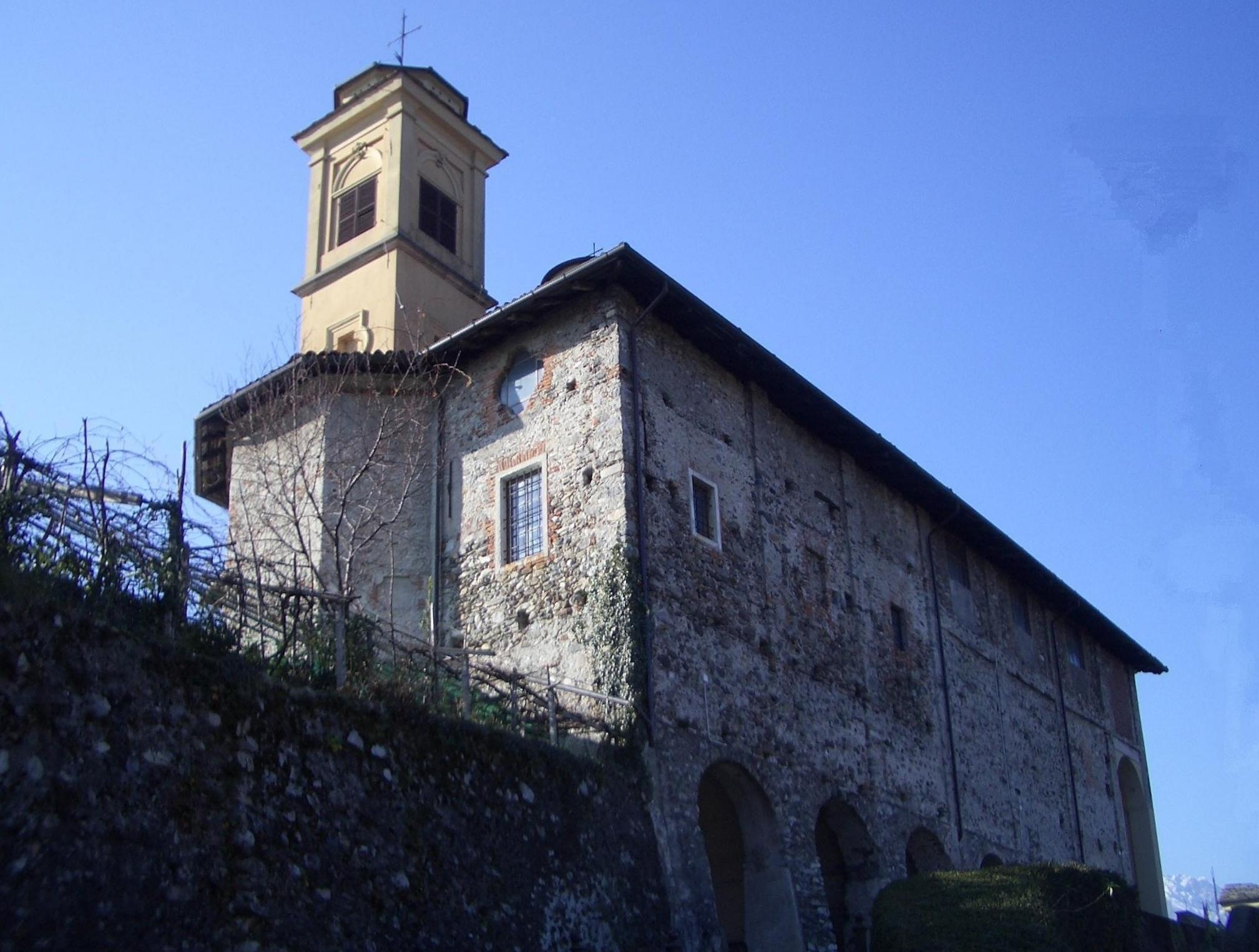 Photo of the Sanctuary of Sant'Anna di Montrigone (XVII century), Borgosesia (VC), Italy